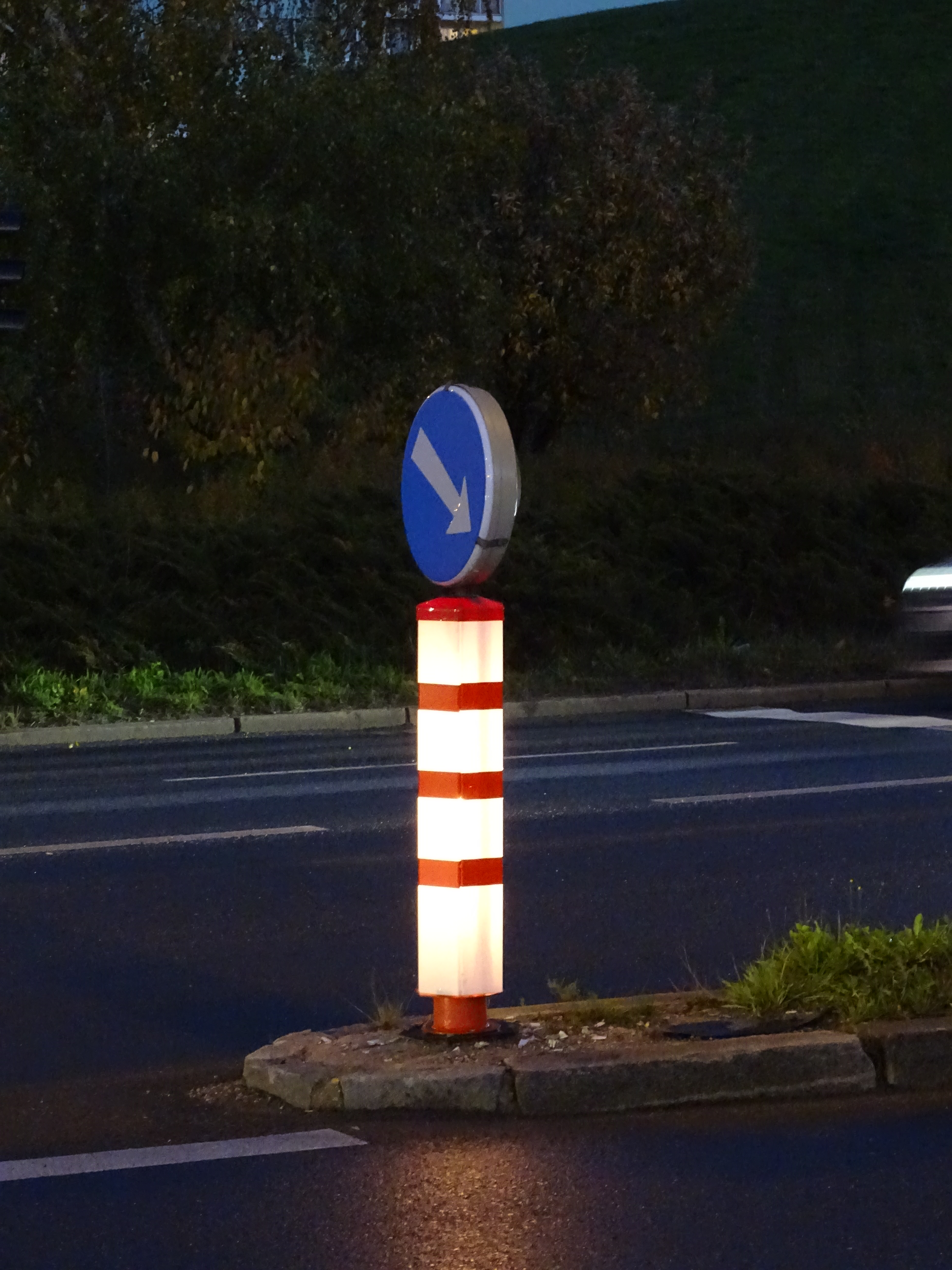 Prague-Chodov, Czechia, Chilská street, luminous traffic beacon.